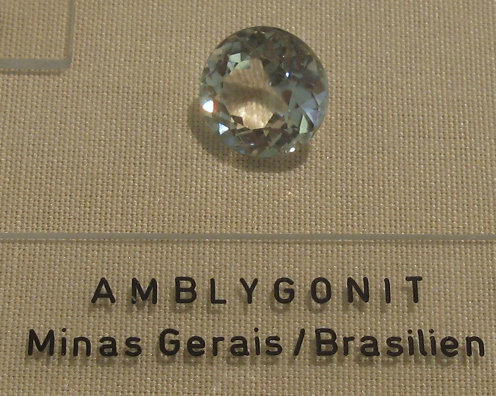 Amblygonite faceted - Locality: Minas Gerais, Brazil - Exposed in the Mineralogical Museum, Bonn, Germany